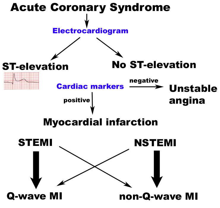 Scheme of different terms surrounding myocardial infarction.